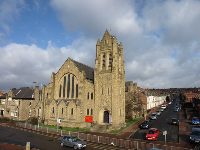 St George's parish church and Inskip Terrace, Gateshead, Tyne and Wear, seen from the southwest from the footbridge over Durham Road